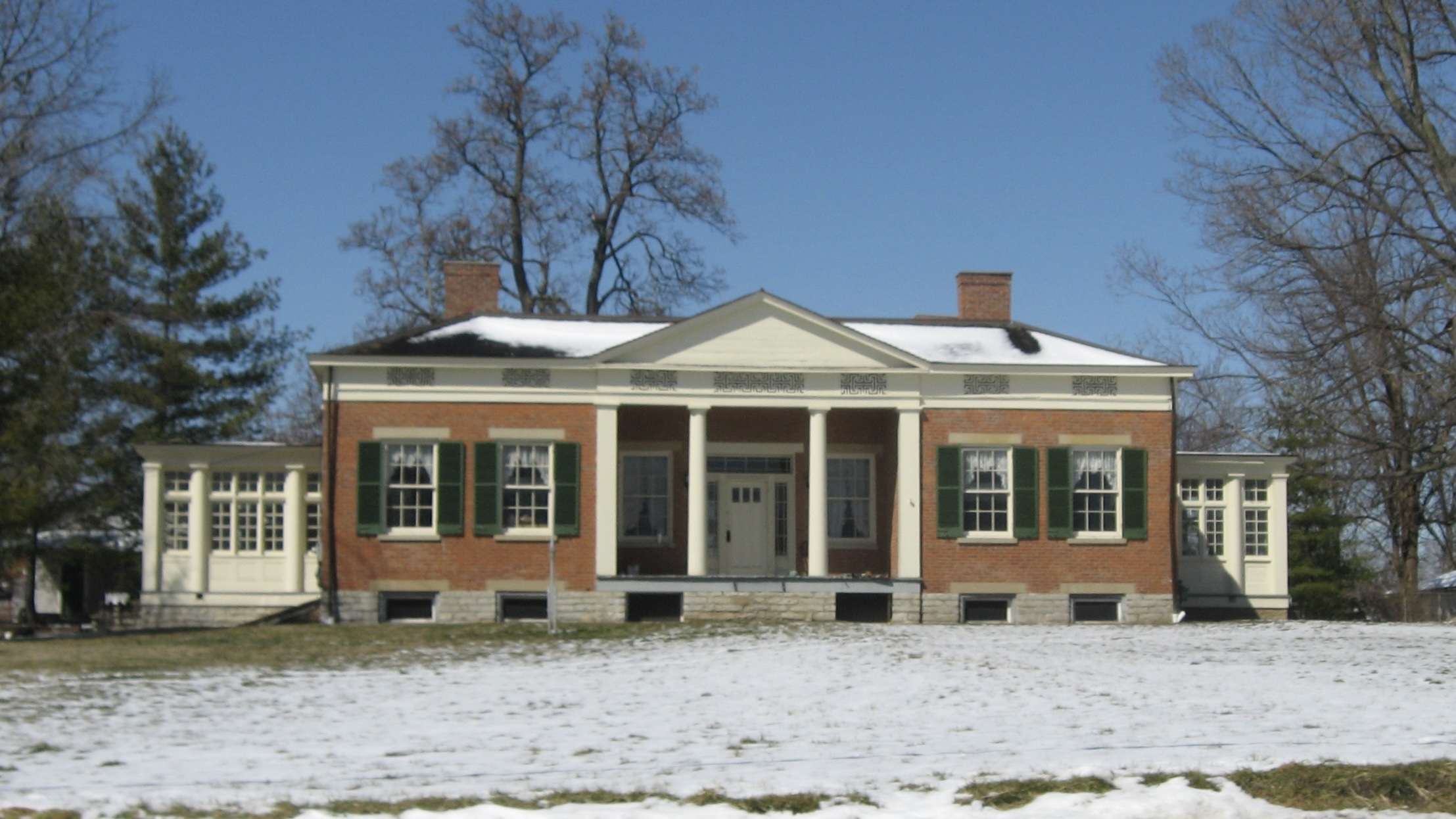 Front of the Spread Eagle Tavern (the James D. Conrey House), located at 9797 Cincinnati-Columbus Road (U.S. Route 42) in West Chester Township, Butler County, Ohio, United States. Built in 1840, it is listed on the National Register of Historic Places.